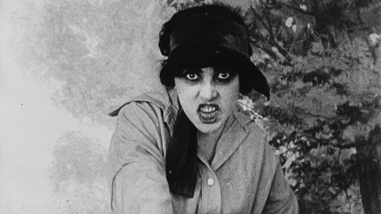 1915 screenshot of actress Musidora in the Louis Feuillade-directed film series Les Vampires.